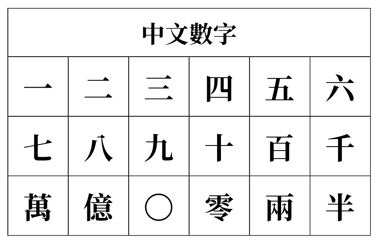 Common Chinese Numerals